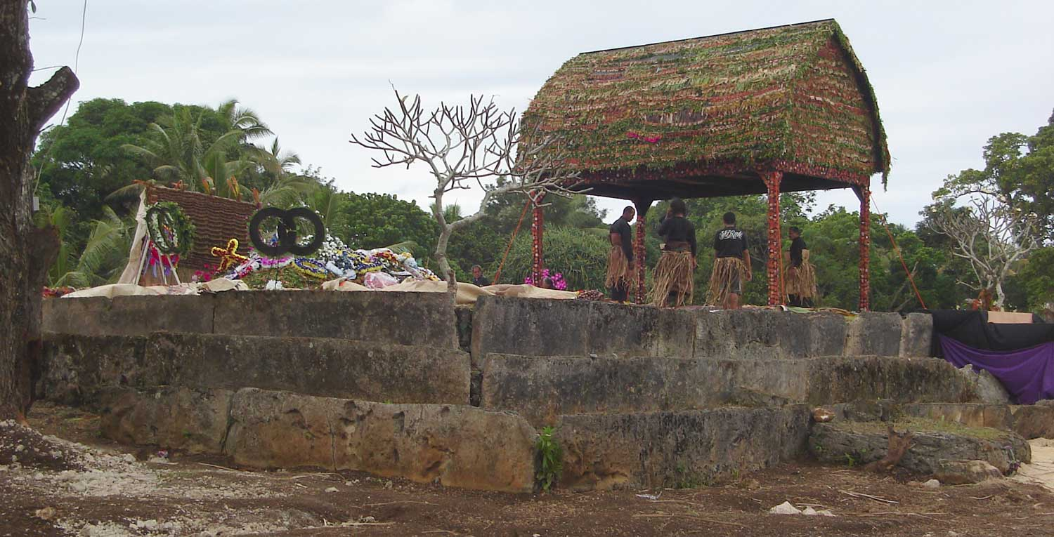 Langi Namoala (after the funeral of Tuʻipelehake (ʻUluvalu))